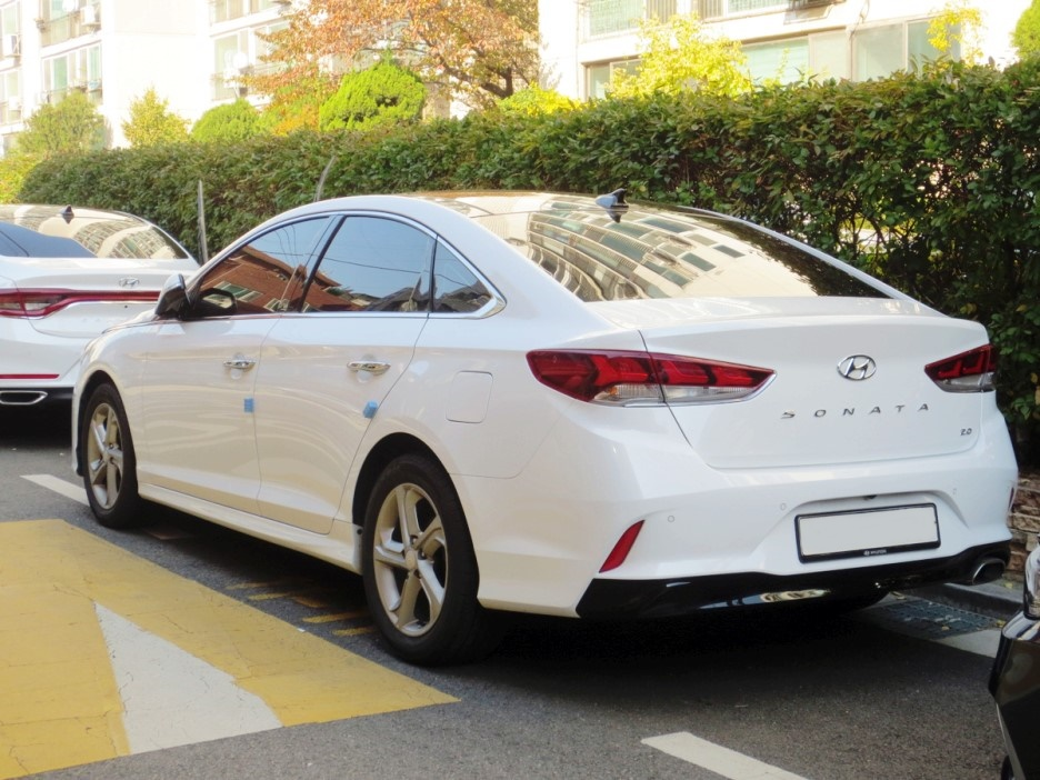 Hyundai Sonata (LF) New Rise